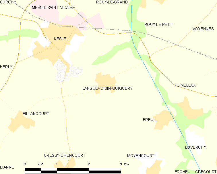 Map of French municipality Languevoisin-Quiquery